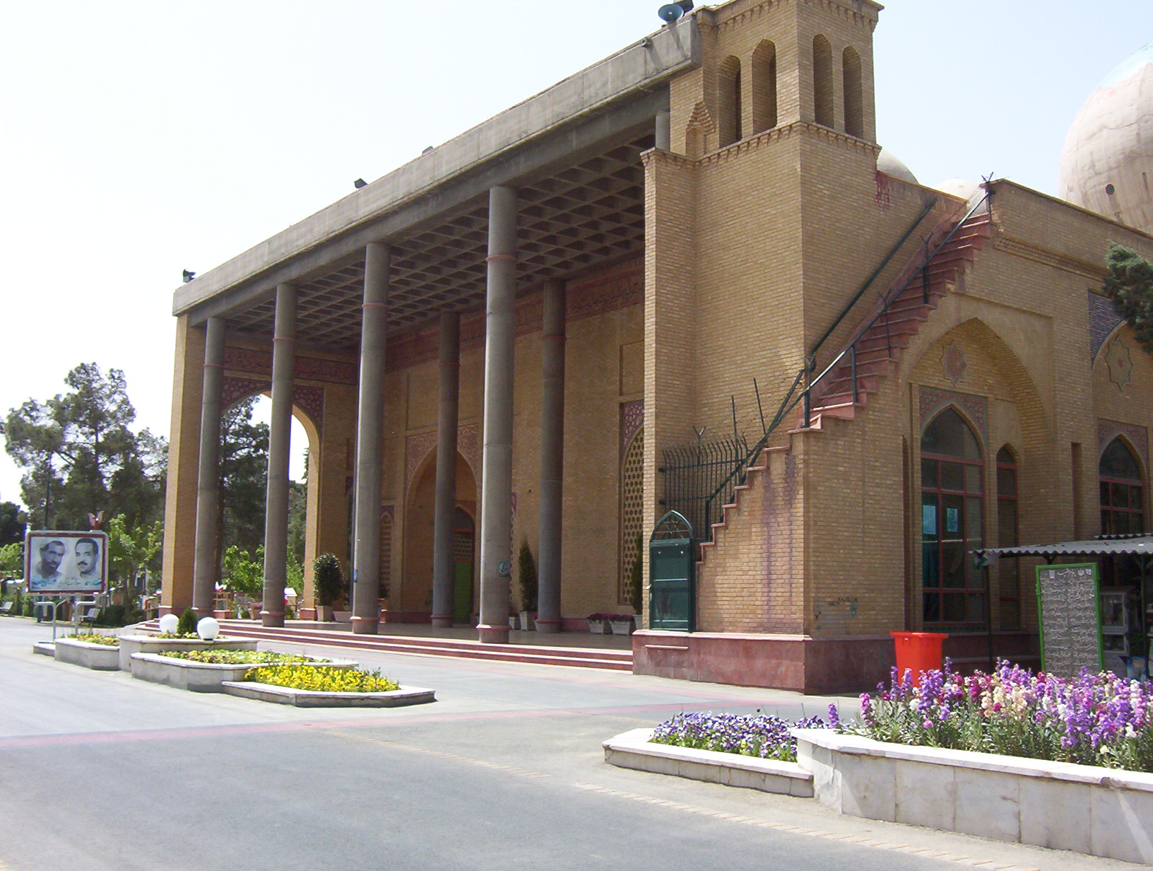 Hafte Tir bombing tombs and monument